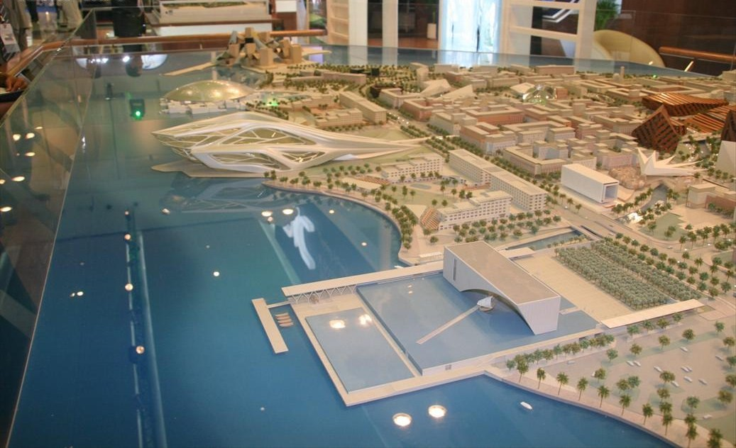 This is a photo showing a model of Saadiyat Island in Abu Dhabi, United Arab Emirates on 8 May 2007. The model was at the Cityscape Abu Dhabi 2007. Made by Kennedy Fabrications of New York.